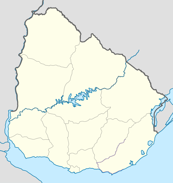 1856 map of the Oriental Republic of Uruguay. After the establishment of Florida Department, the country was subdivided into thirteen departments